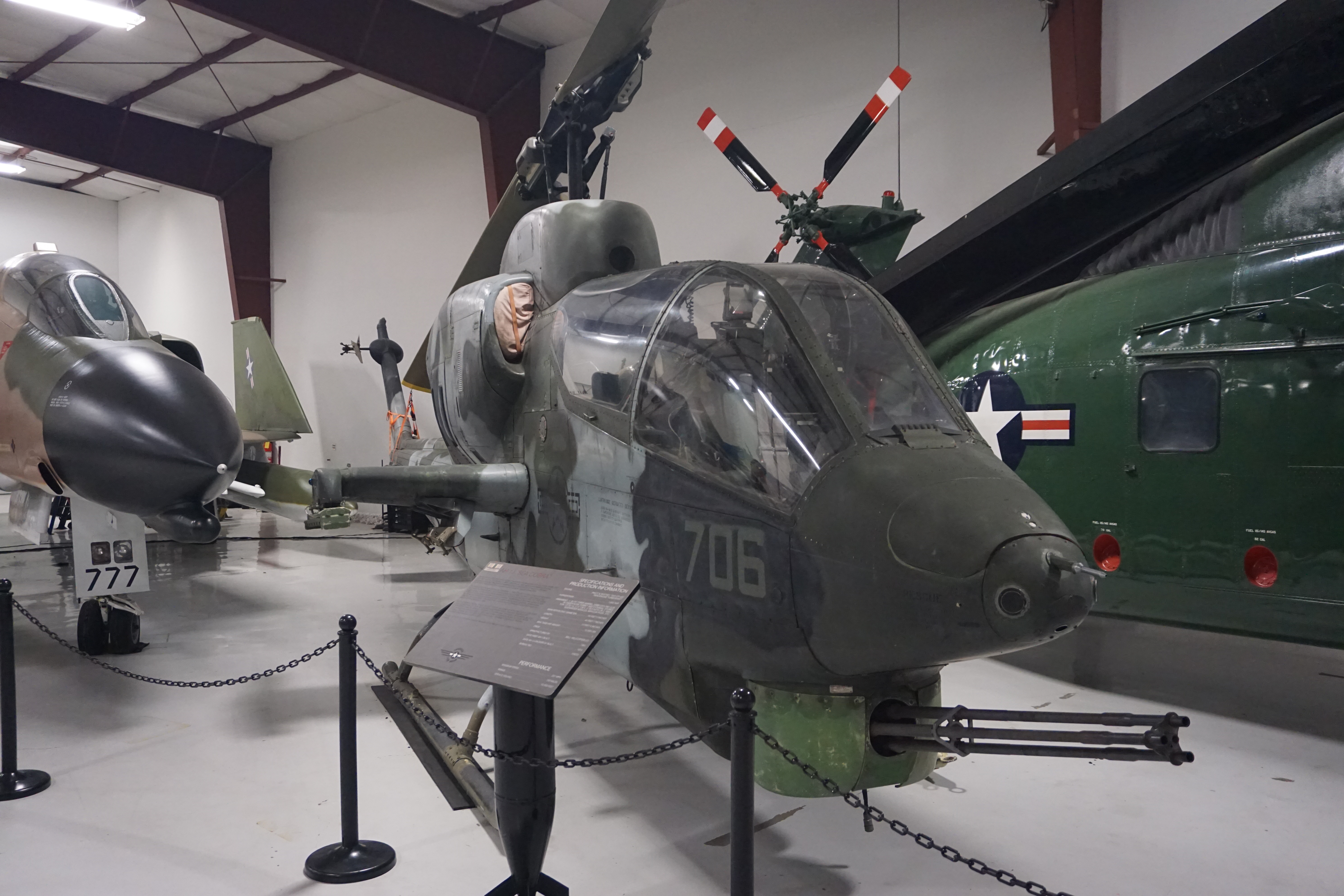 A Bell AH-1J SeaCobra on display at the Cavanaugh Flight Museum at Addison Airport in Addison, Texas (United States).